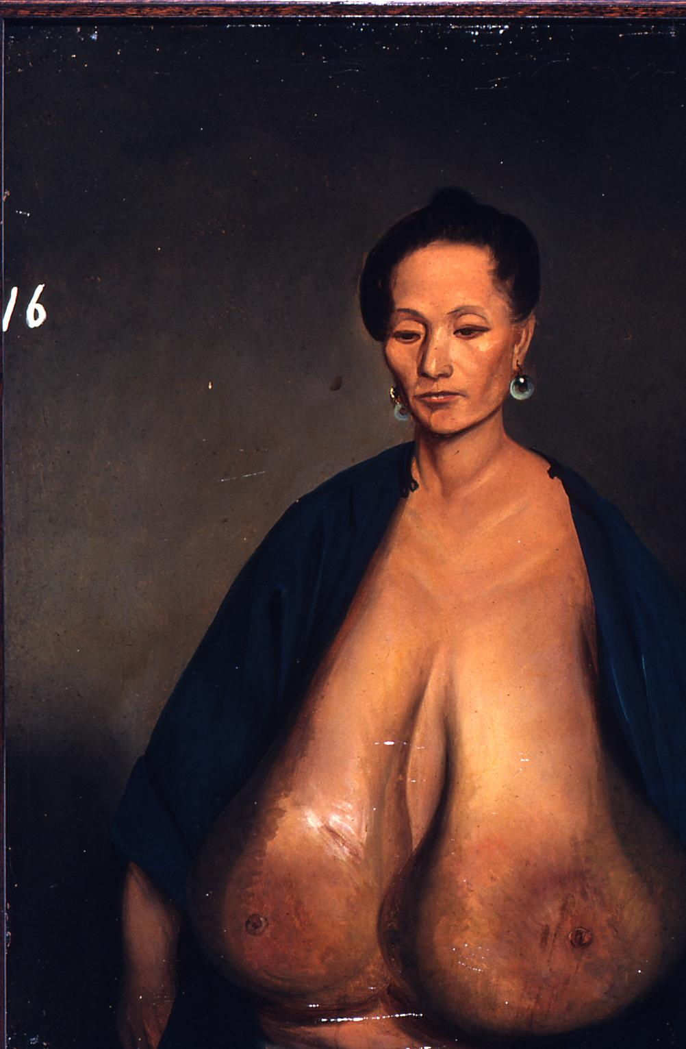 "Lu-shi, aged 42, first presented herself at the hospital, April 17; and when we were about to operate on her, after a few weeks' preparatory treatment, her impatient, opium-smoking husband suddenly summoned her home. Her husband died, and the woman returned. Dec. 24, 1849, the left breast, measuring 2 feet, 2 1/2 inches in circumference, and weighing 4 1/2 catties (about 6 pounds), was removed in three and a half minutes. In one month after, the right breast, measuring 2 feet, and weighing 5 1/2 pounds was removed in three minutes."